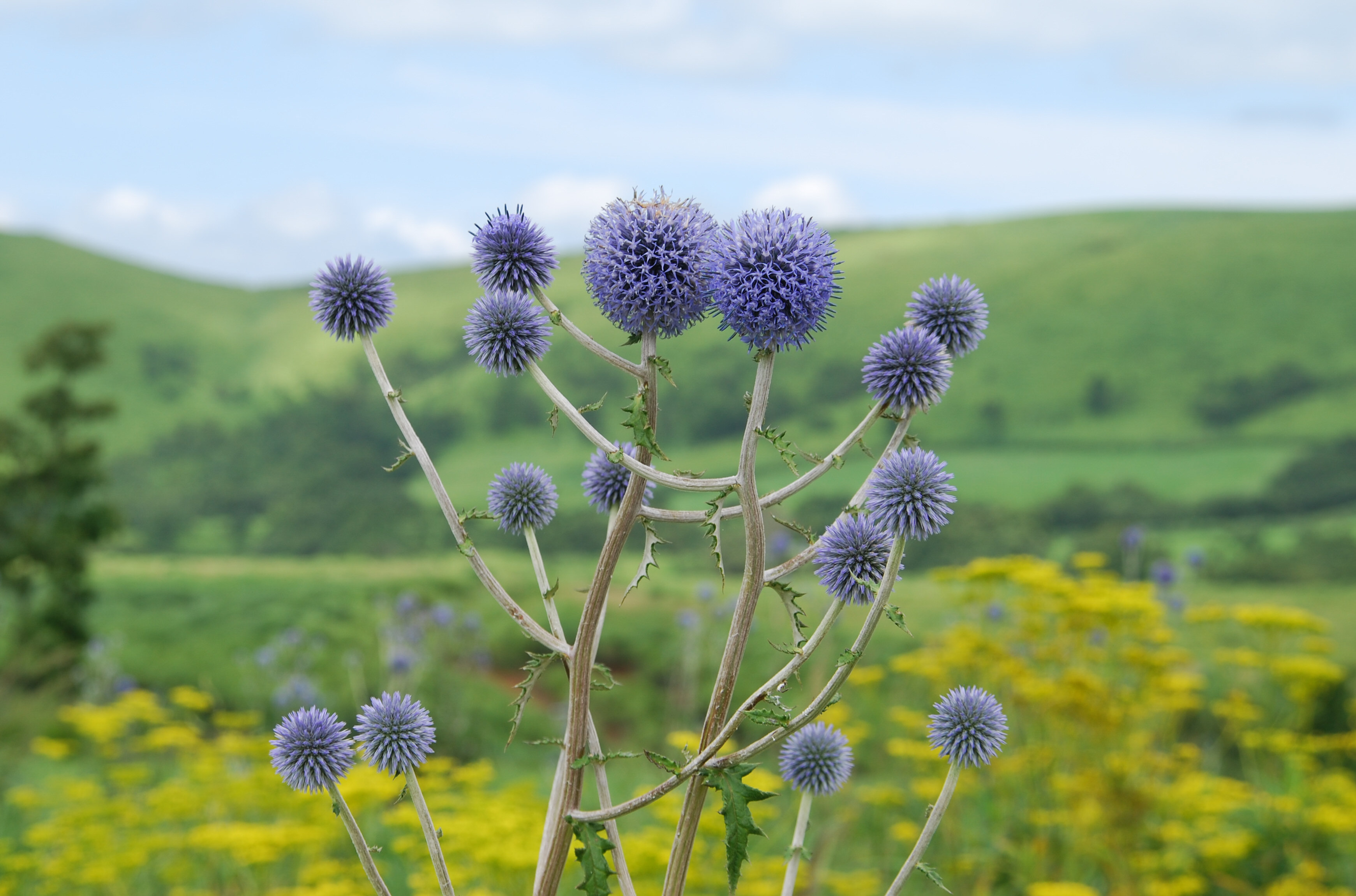 Echinops setifer, Higotai-park at kujuu Mt in kyuuyu japan